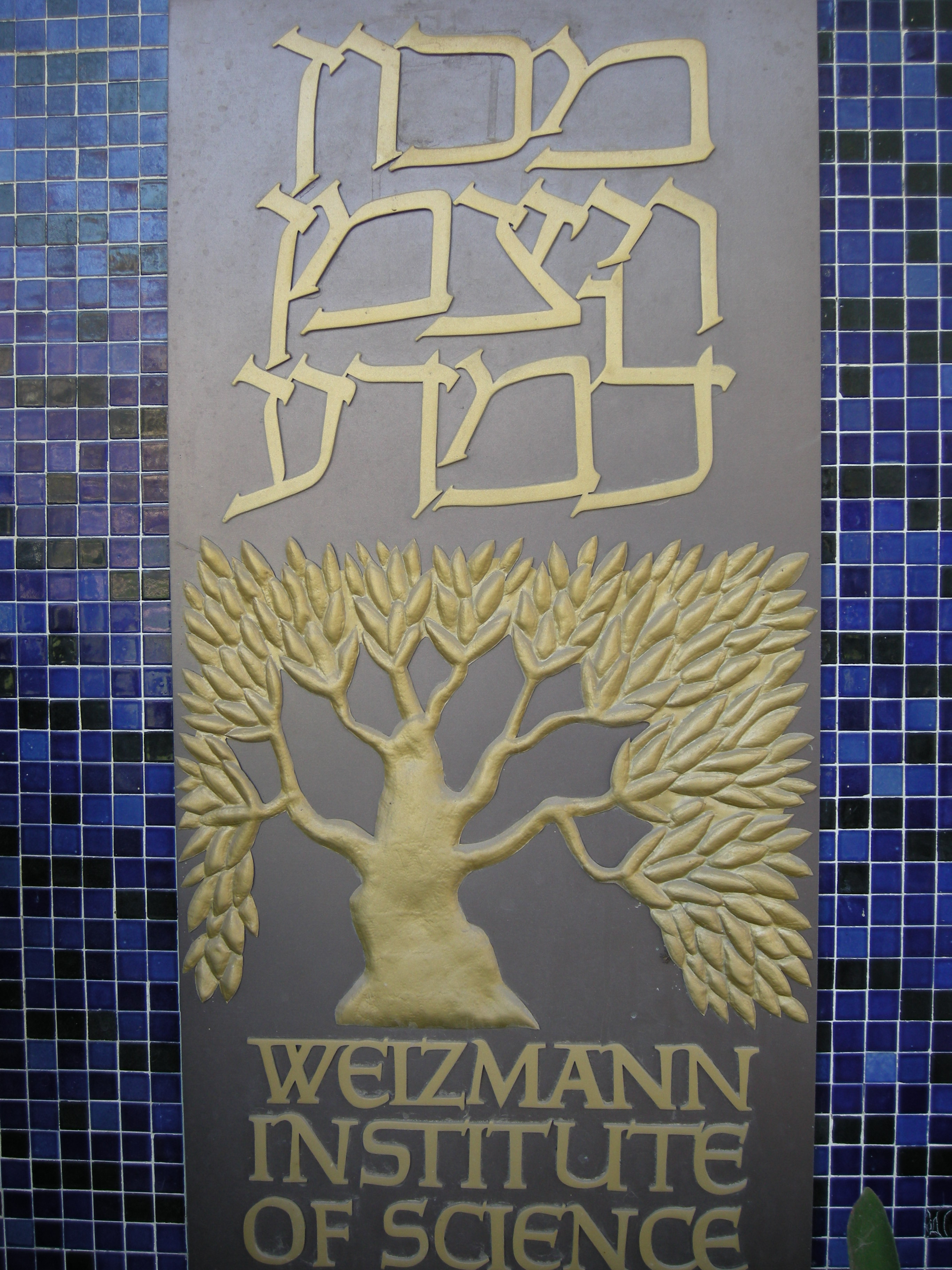 Weizmann Institute of Science photos taken during a wikipedia guided tour